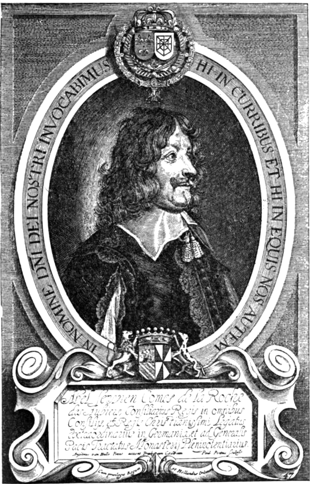 Portrait of Abel Servien (1593-1659), French diplomat